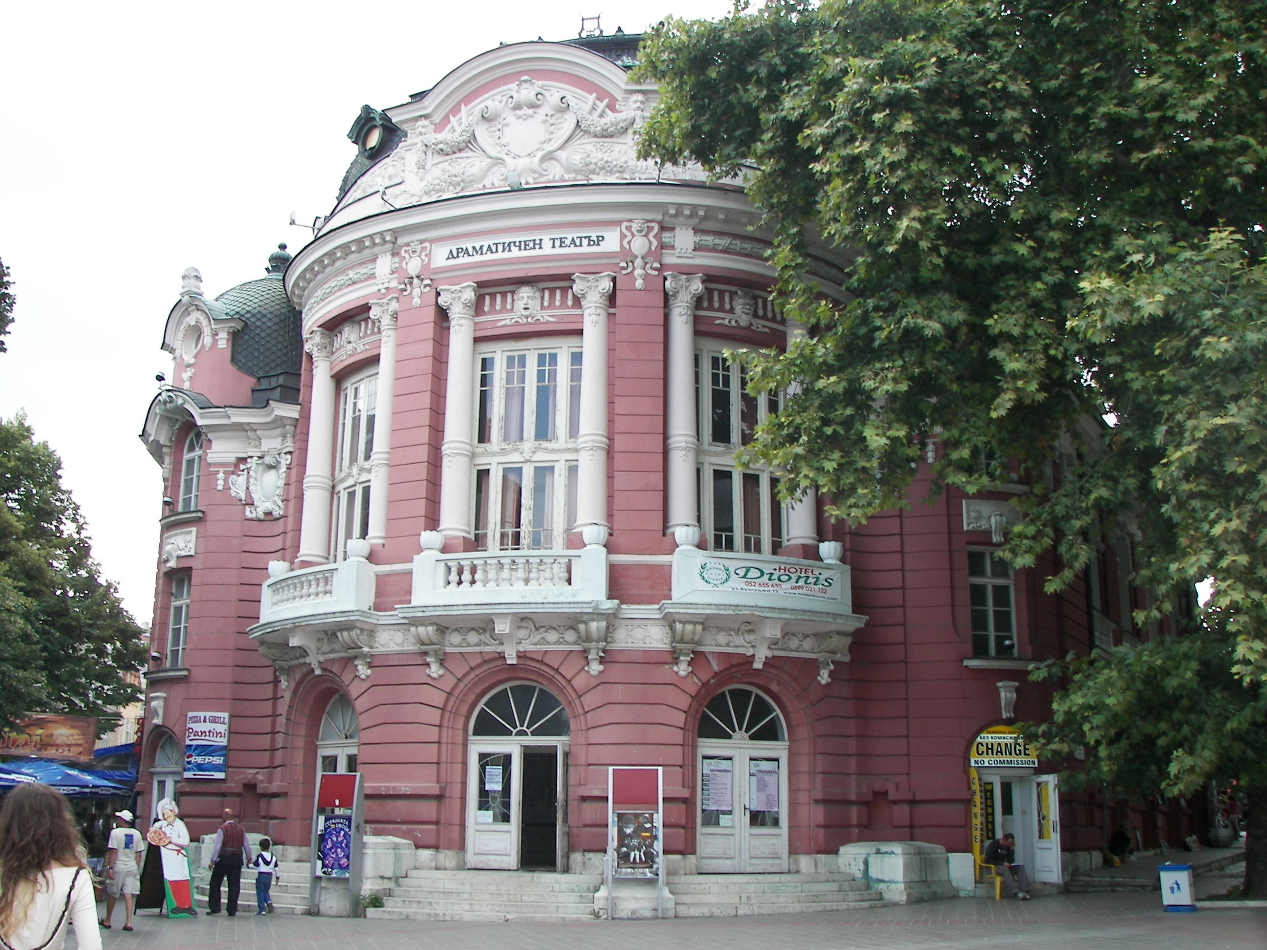 Varna